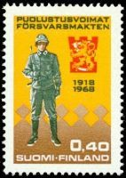 50 years anniversary of Finnish army